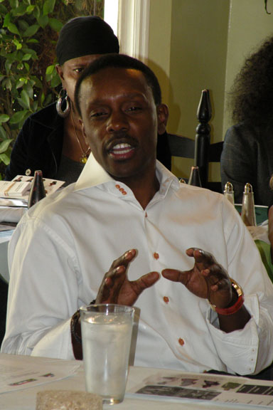 Filmmaker Jean-Claude La Marre at a press conference in support of Haiti, a finalist at the World Challenge 09 competition. The press conference was held at the Kassava Caribbean Restaurant in Los Angeles.